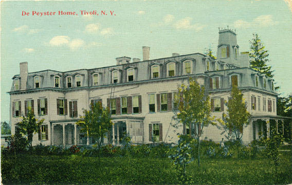 The de Peyster family home, located in Tivoli, New York. It later became the Watts De Peyster Industrial Home and School for girls, and was torn down in 1938.